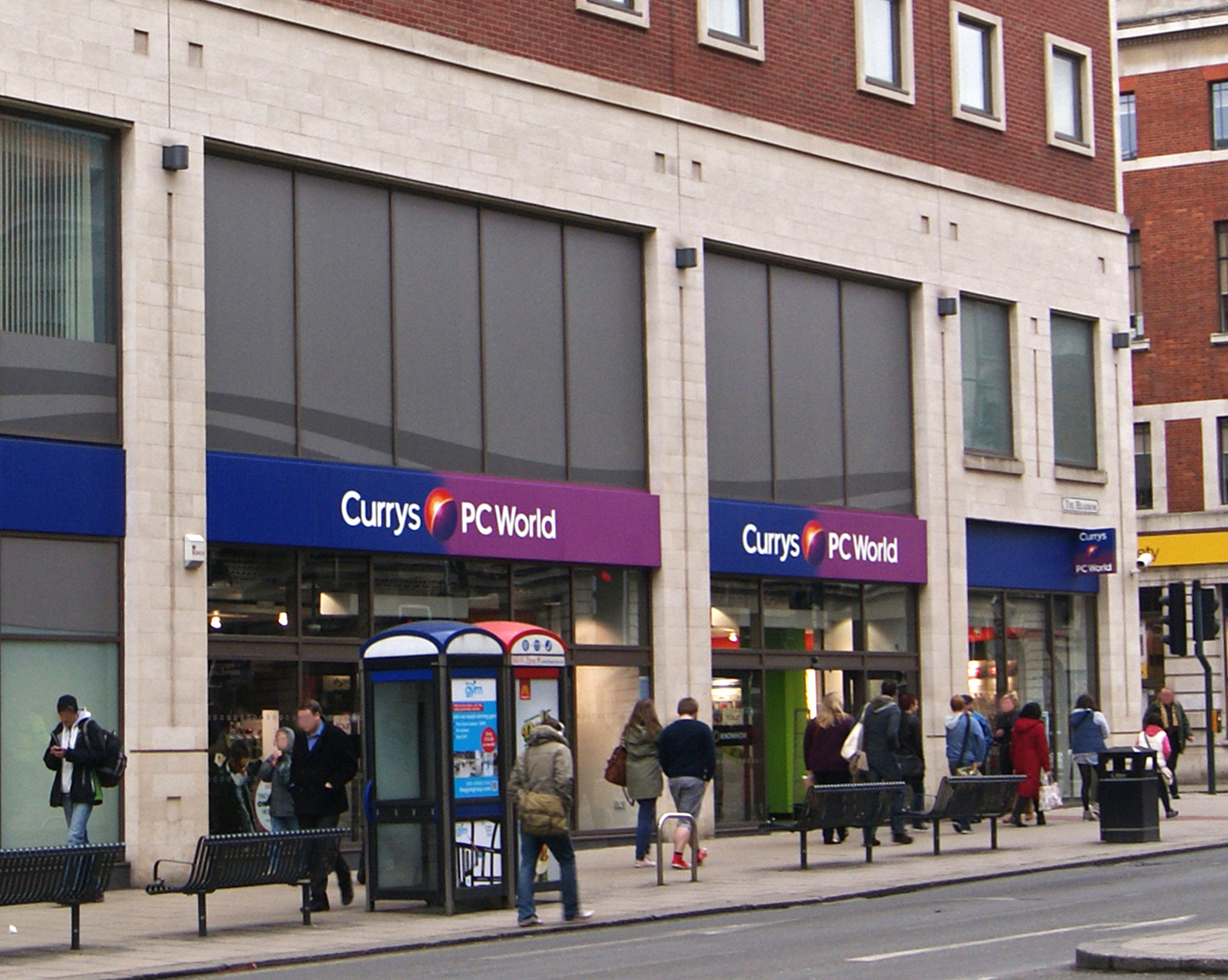 Currys and PC World on the Headrow, Leeds, West Yorkshire. Taken on the afternoon of Wednesday the 20th of February 2013. (Modified version of original image for thumbnail use; see changes below).